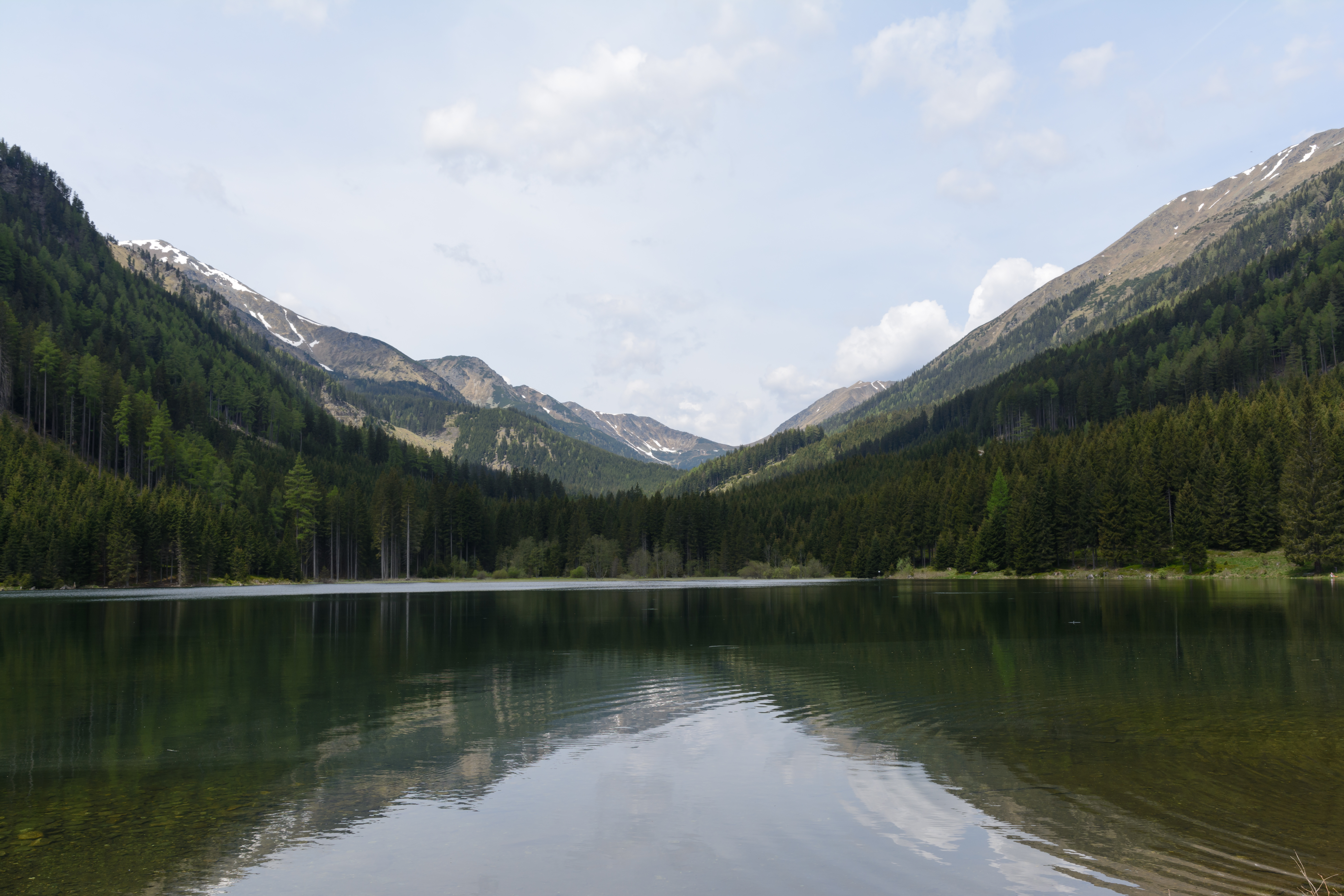 Lake Ingeringsee near Gaal, Styria, Austria